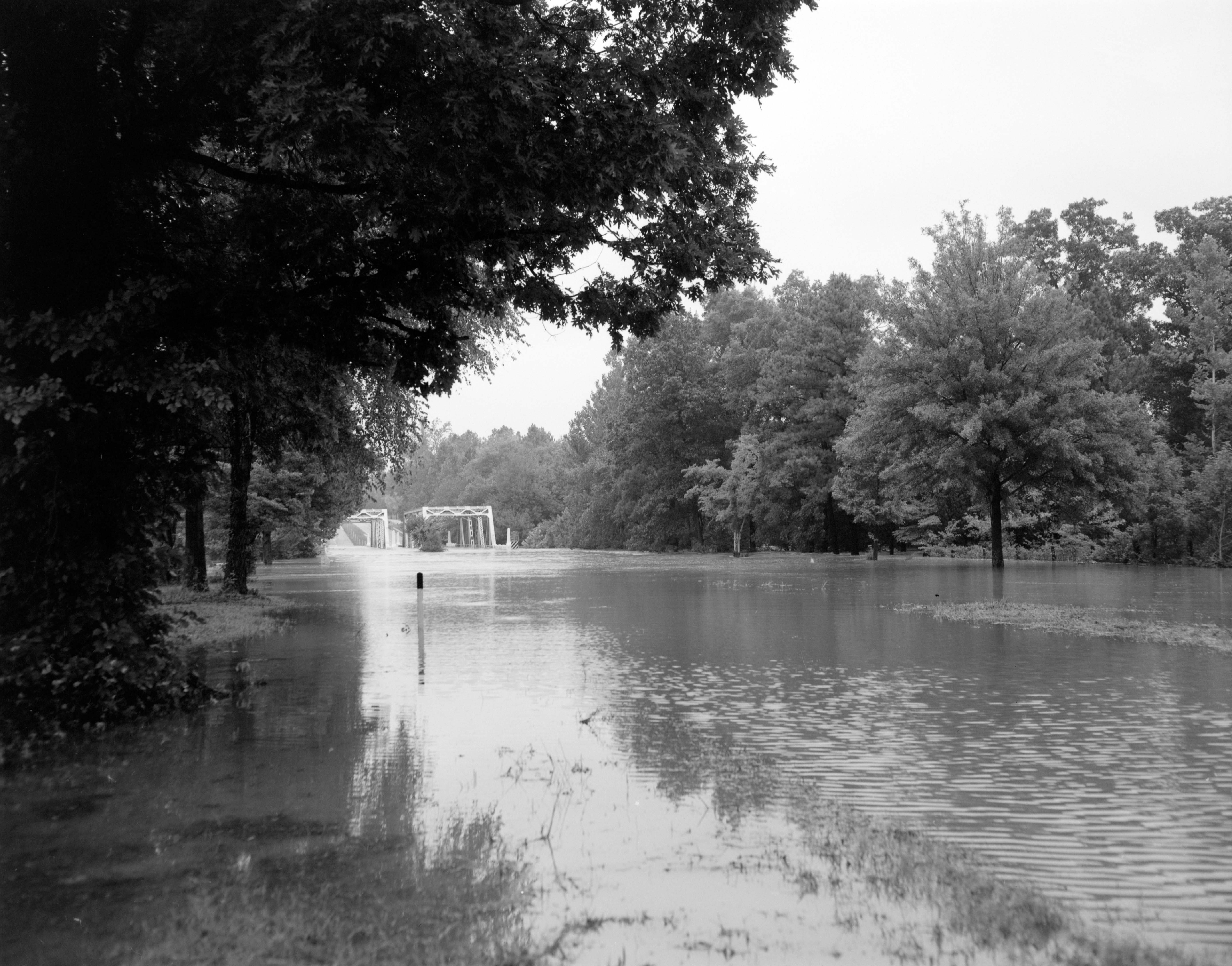 The Rt. 1 bridge over the North Anna River is completely inaccessible due to flooding. Located in Hanover County, north of Richmond. No. 69-2000, Virginia Governor's Negative Collection, Library of Virginia.